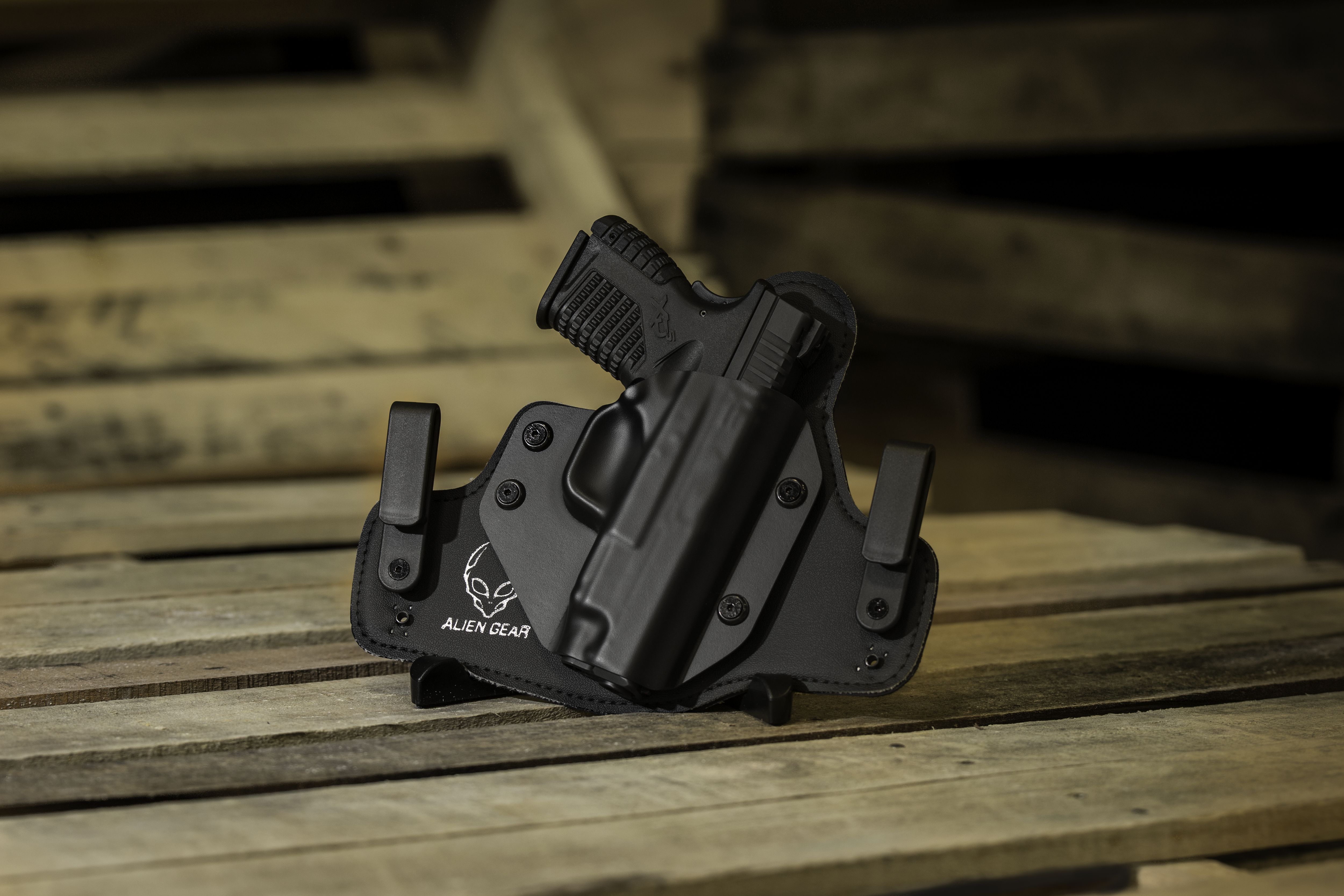 Xds holster, feel free to use but give credit to